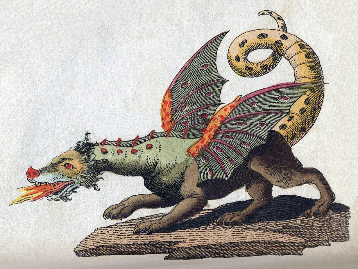 Friedrich Johann Justin Bertuch, the mythical creature dragon, 1806